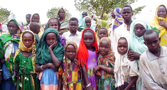 Group of people in Darfur